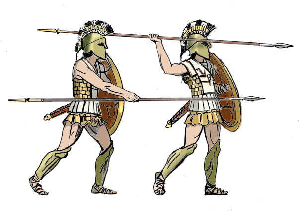 An EDSITEment-reconstruction of Hoplites based on sources from The Perseus Project.